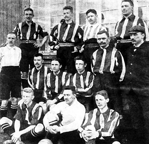 Squad of København football team that competed in 1906 Intercalated Games.